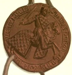 Seal of John de Varenne, earl of Surrrey